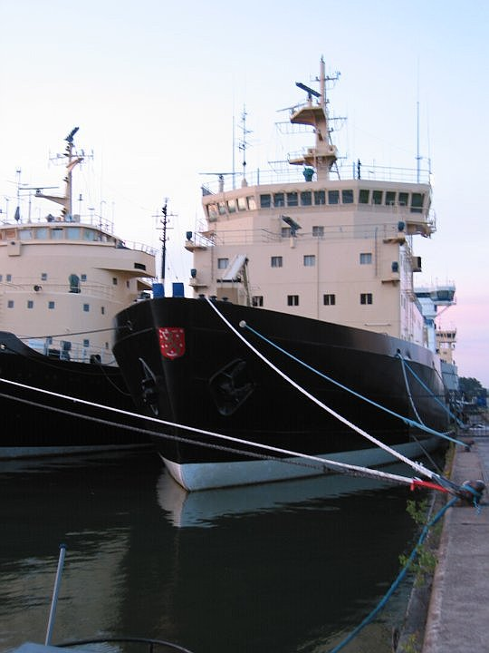 Icebreakers Apu and Voima in Helsinki.